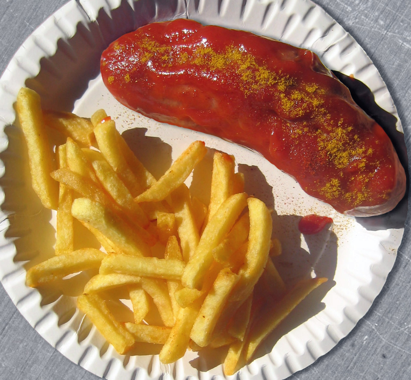 Currywurst